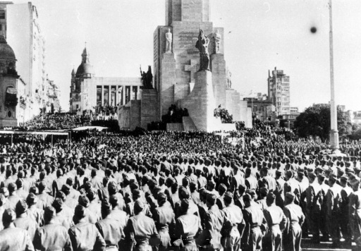 Inauguration of the National Flag Memorial in Rosario, Argentina